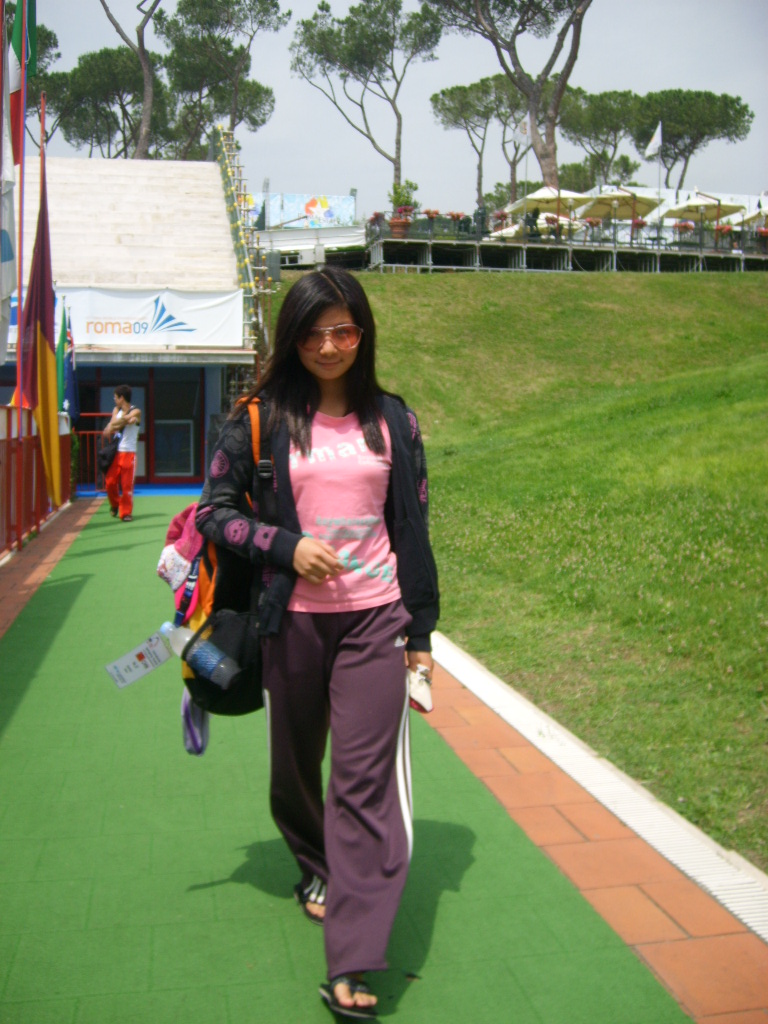 He Zi is a Chinese female diver